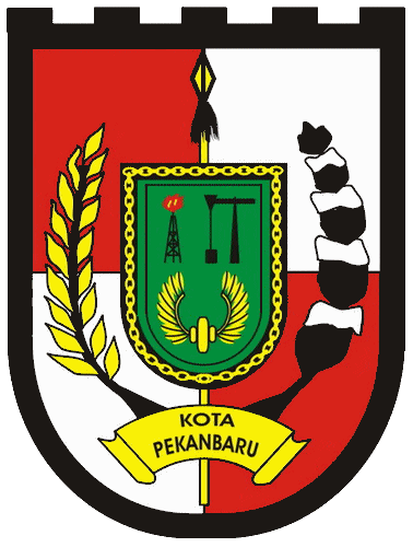 Coat of Arms of Indonesian city of Pekanbaru.